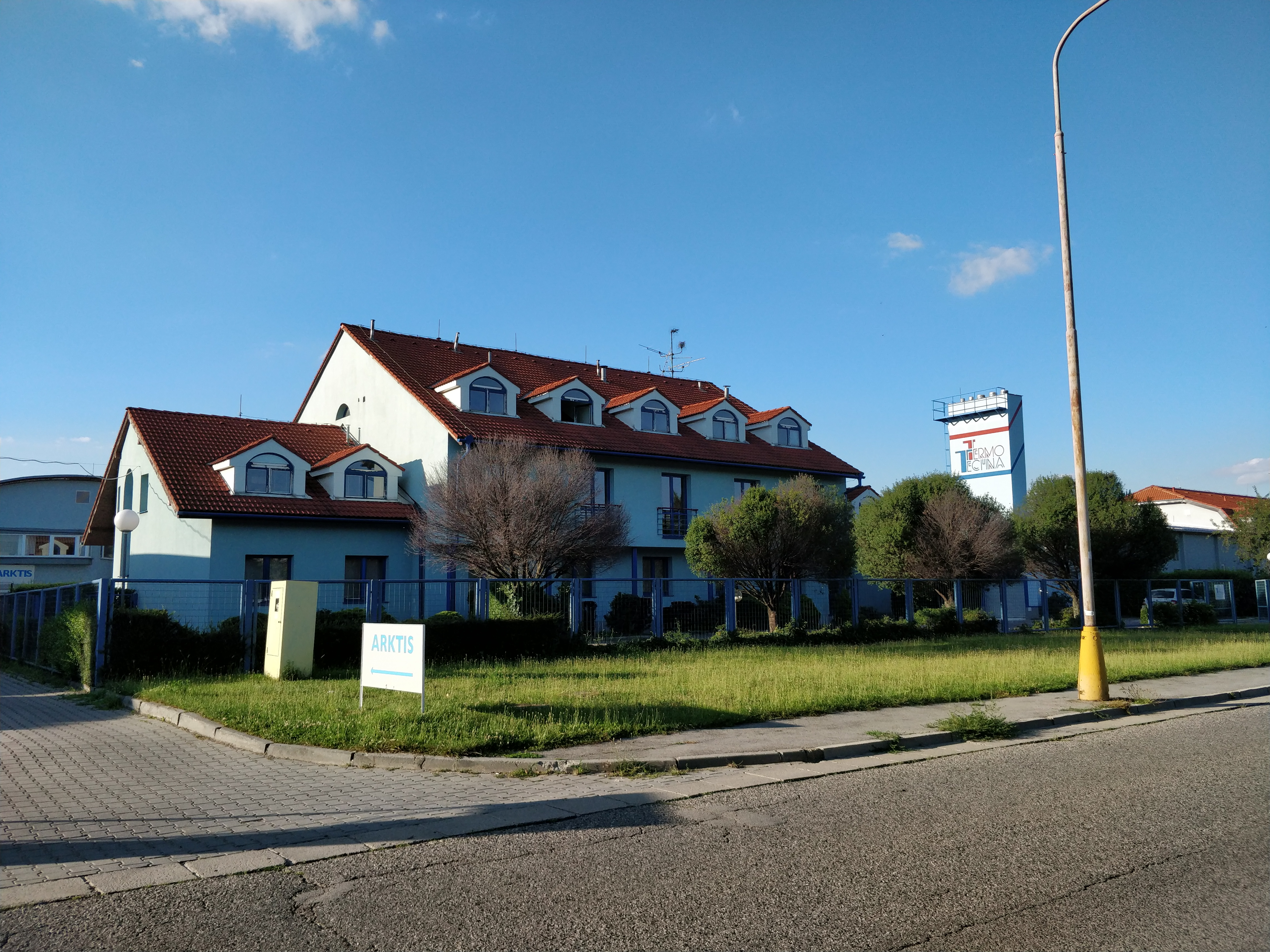 Staviteľská, Bratislava, Slovakia